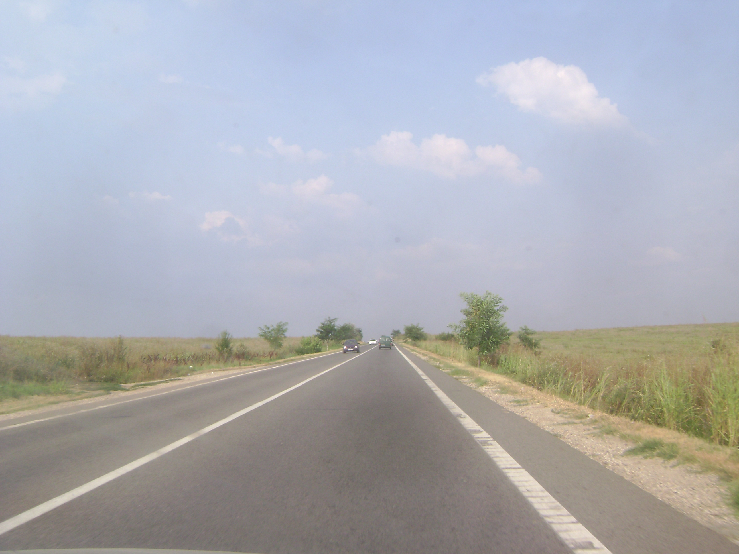 European route E70 as seen through Gorneni, Iepureşti, Romania